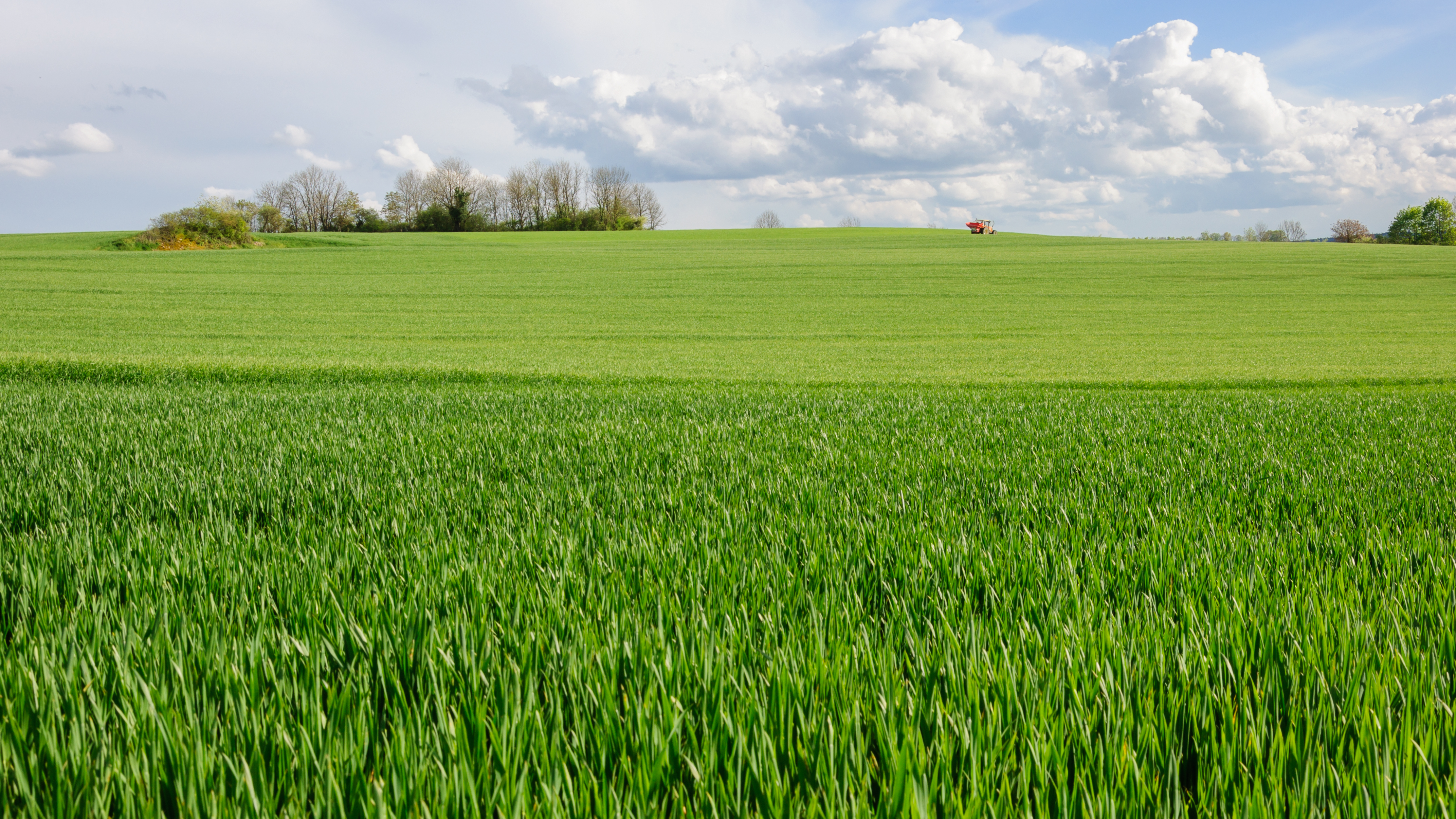 Wheat field near Alise-Sainte-Reine, Côte-d'Or department, Burgundy, France.